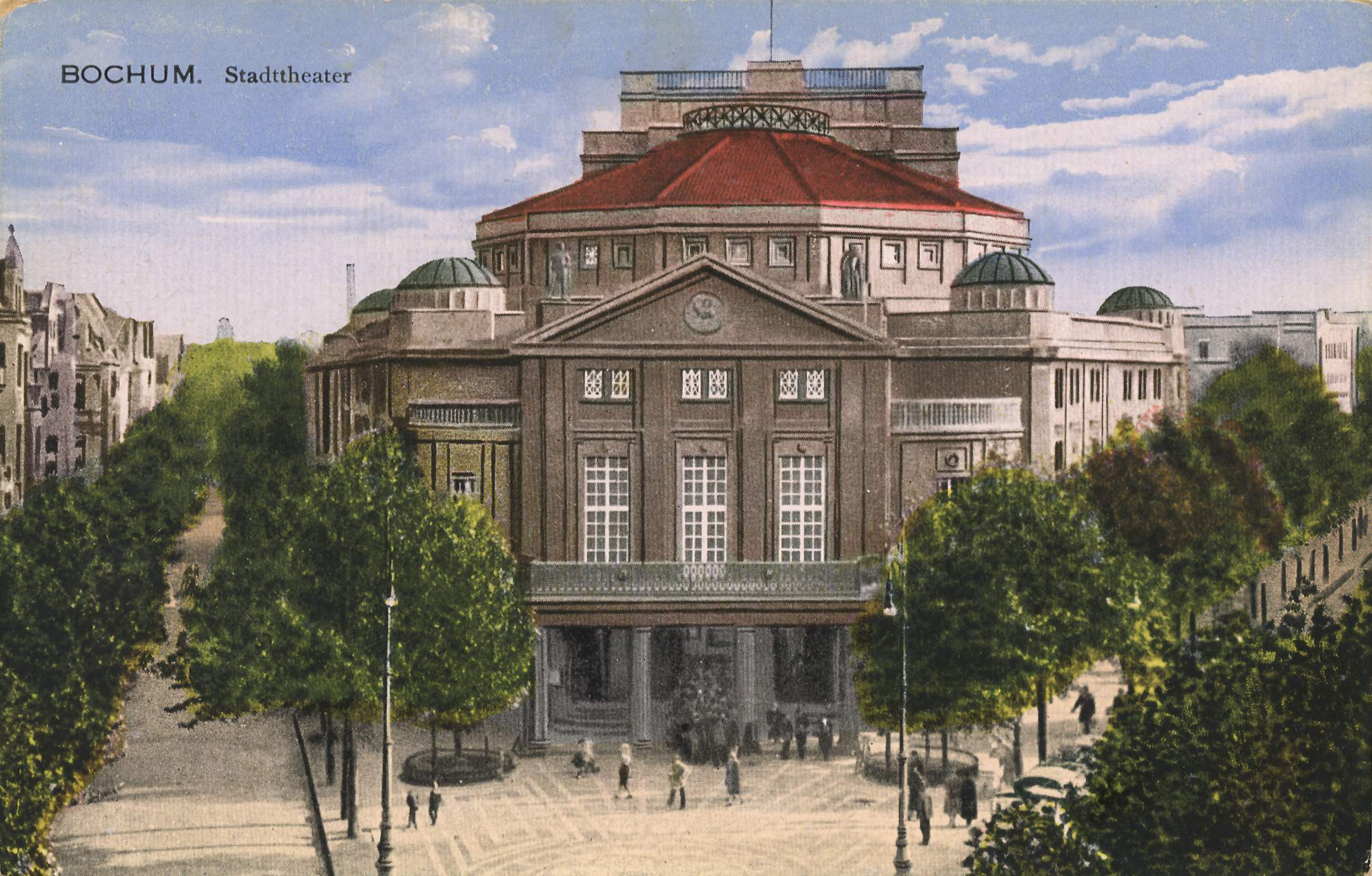 municipal theatre in Bochum, Northrhine-Westphalia, Germany; destroyed in 1944; coloured postcard